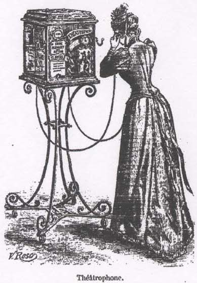 Le théatrophone. An illustration from an 1892 French periodical.